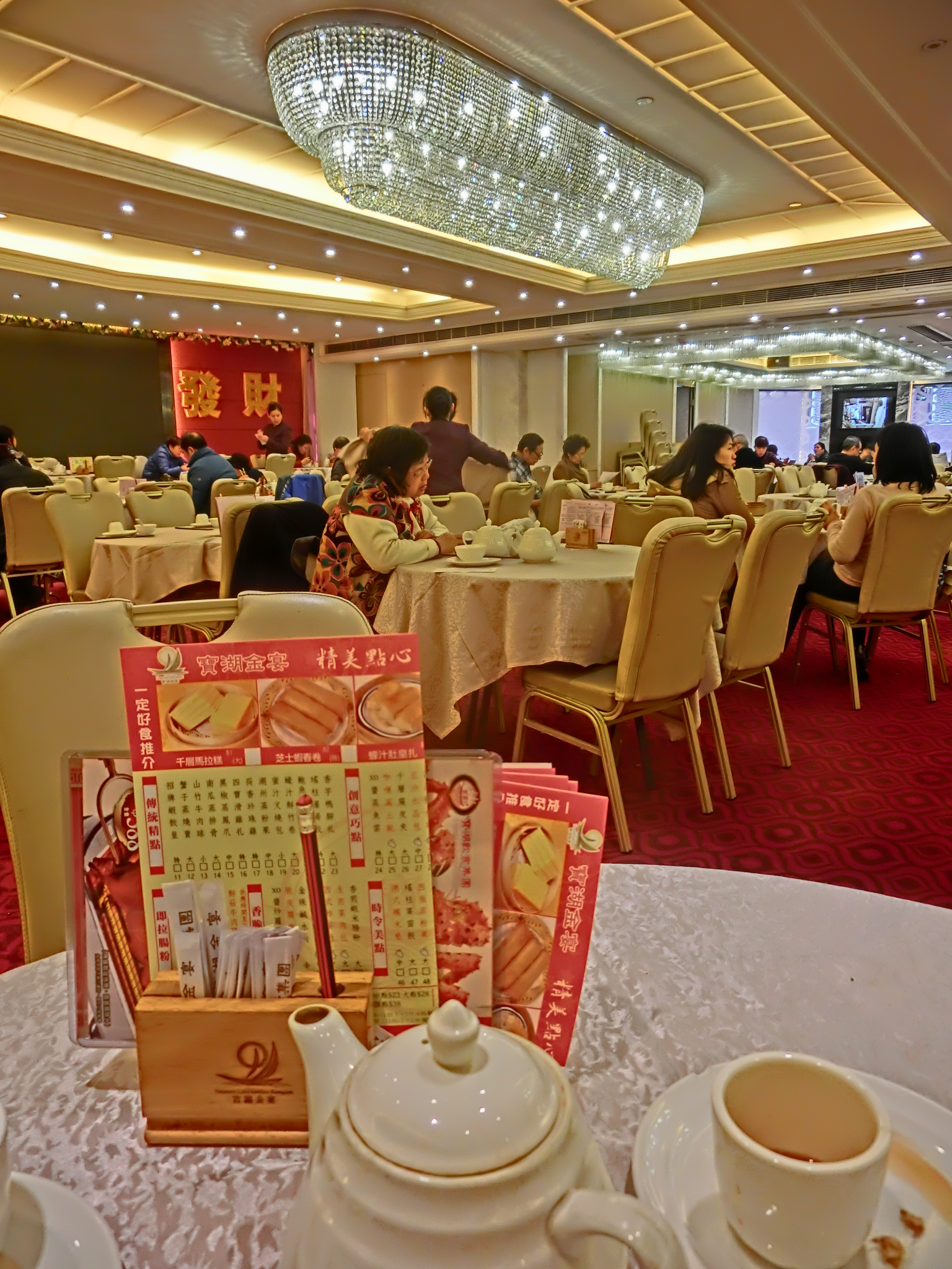 上環 寶湖金宴, Interior of Treasure Lake Golden Banquet Restaurant, Sheung Wan, Hong Kong